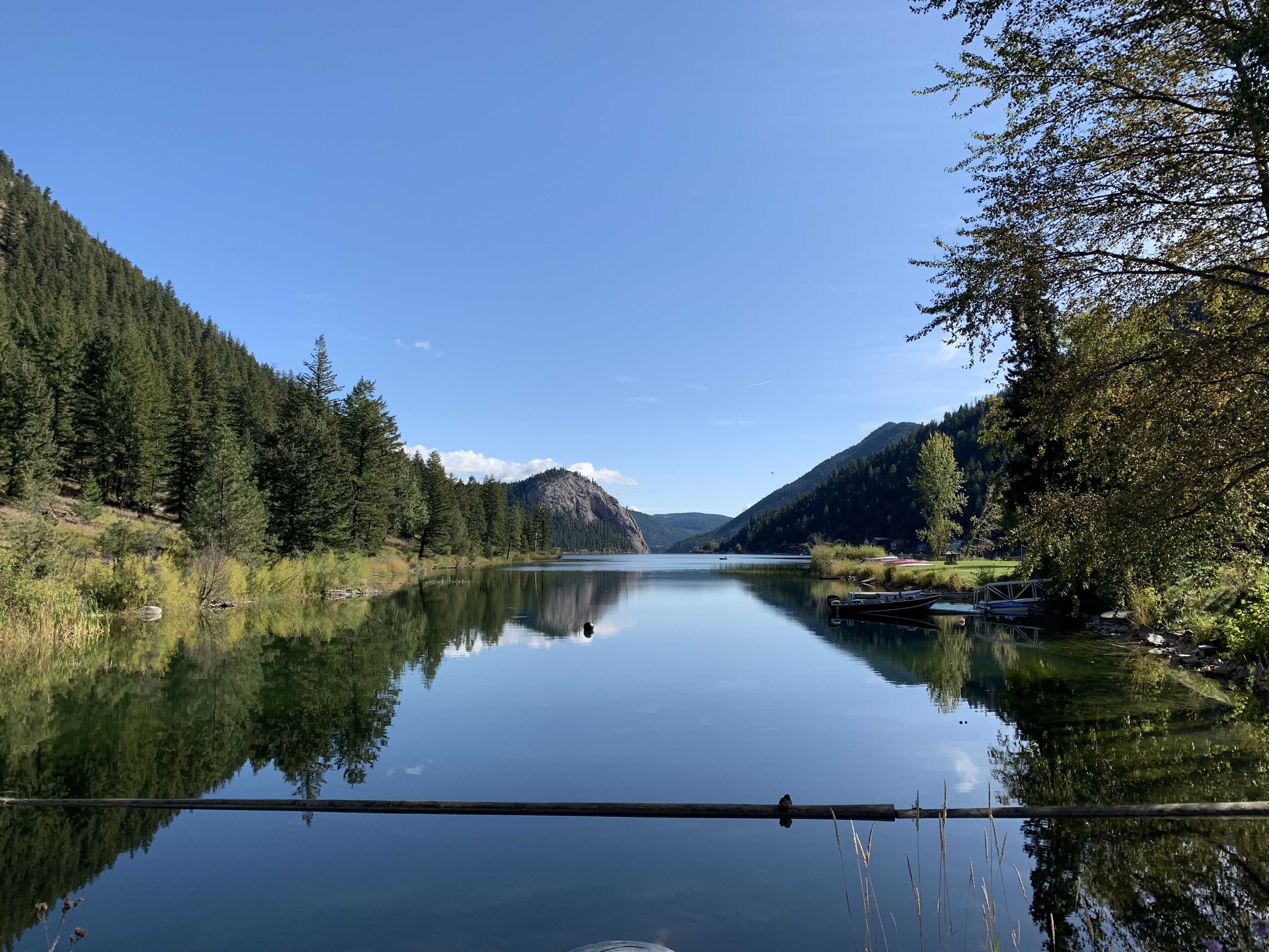 This is a view of Paul Lake within Provincial Park Park near Kamloops, British Columbia. This is a view from the community end facing East into the park.